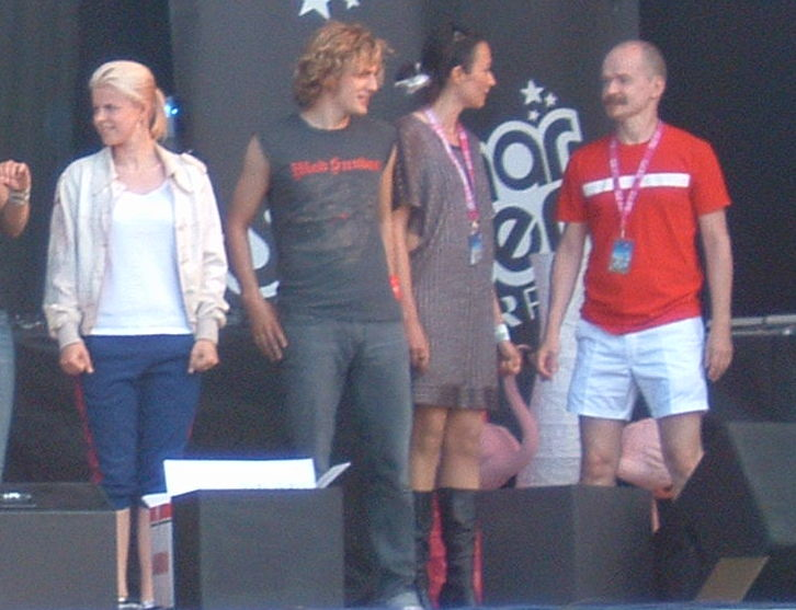 The three members of the Swedish pop group BWO (right) alongside Swedish pop singer-songwriter Robyn (left) during an on-stage radio show at Gatufesten in Sundsvall, Sweden. From left to right: Robyn, Martin Rolinski, Marina Schiptjenko, Alexander Bard.